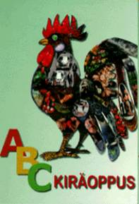 cover of the ABC kiräoppus (ABC book in Võro) Võro: ABC kiräoppusõ (võrokeelidse aabidsa) kaas